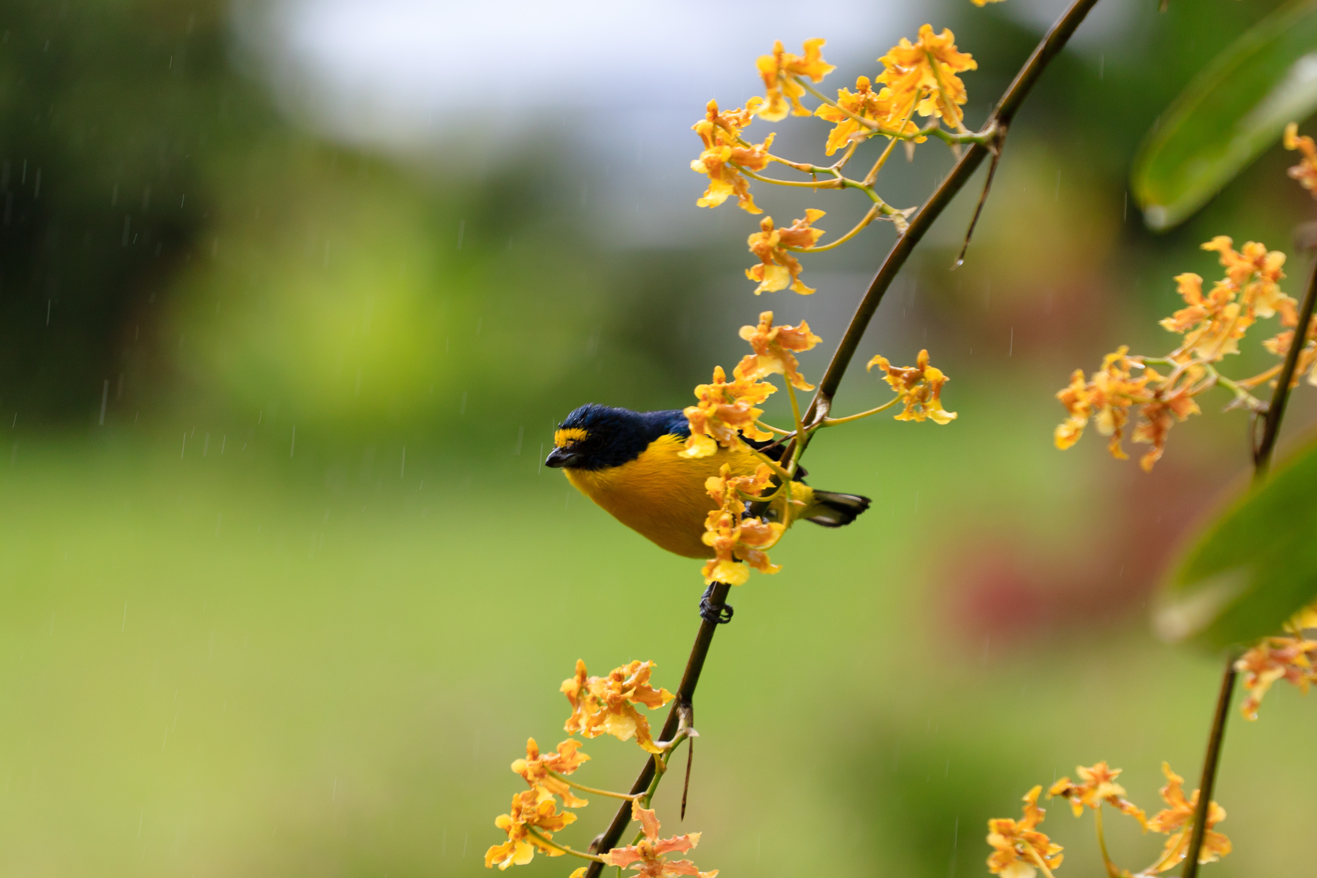 A male Yellow-throated Euphonia in Costa Rica.